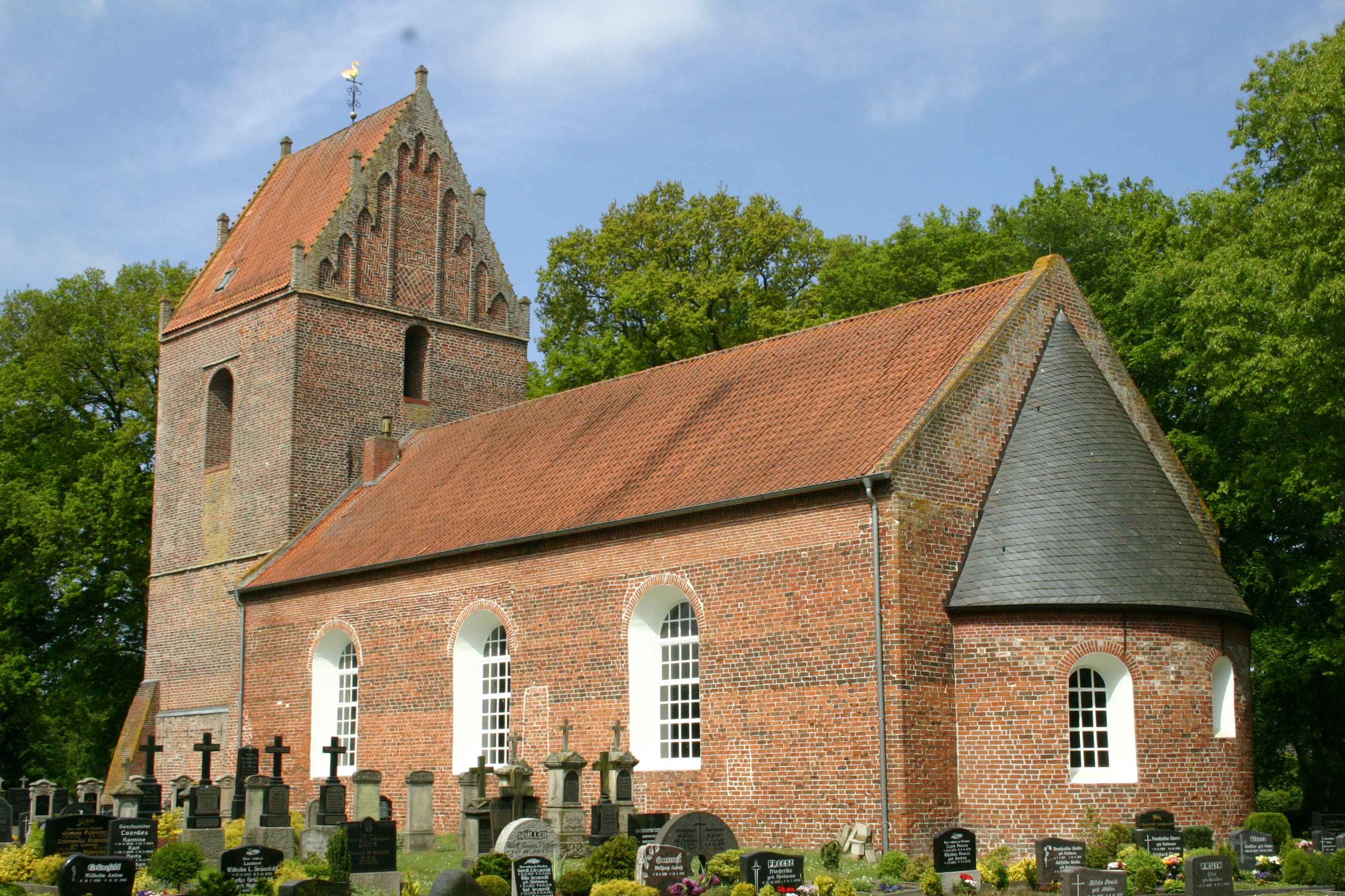 Historic Ss. Vincent and Lawrence Church in Backemoor, district of Leer, East Frisia, Germany